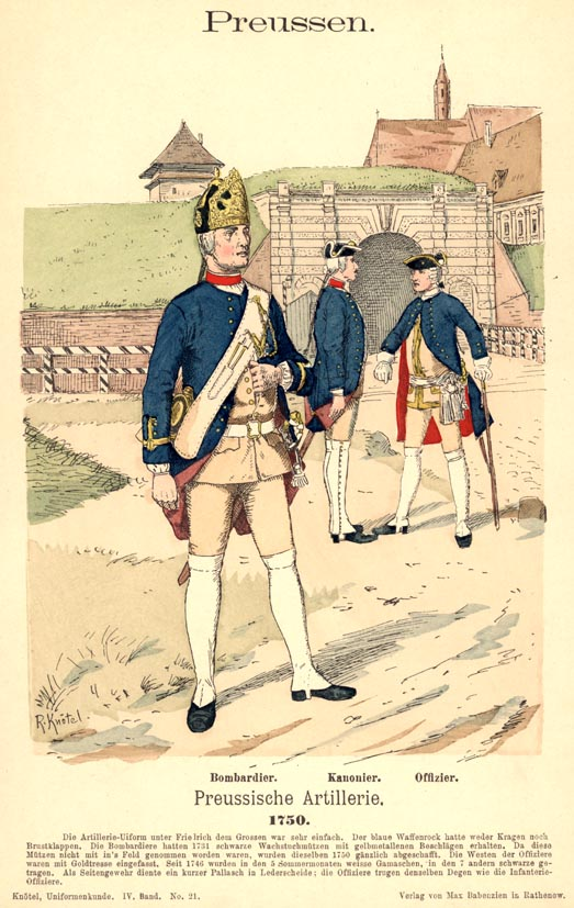 Preußen. Preußische Artillerie 1750